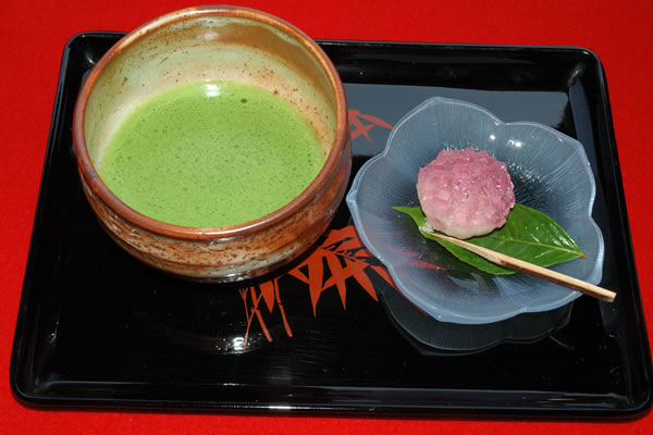 A tray with a prepared bowl of matcha (Japanese powdered green tea) at left, and a plate with a wagashi (Japanese confection) at right.